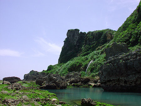 Giiza-Banda